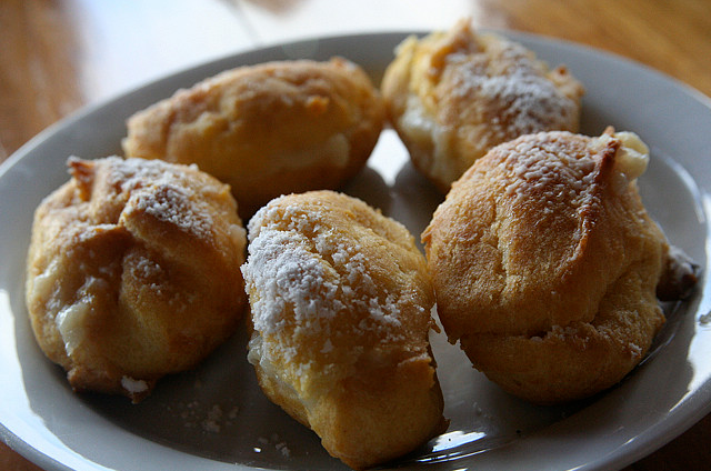 Crream filled doughnuts, a traditional dish in Puntarenas